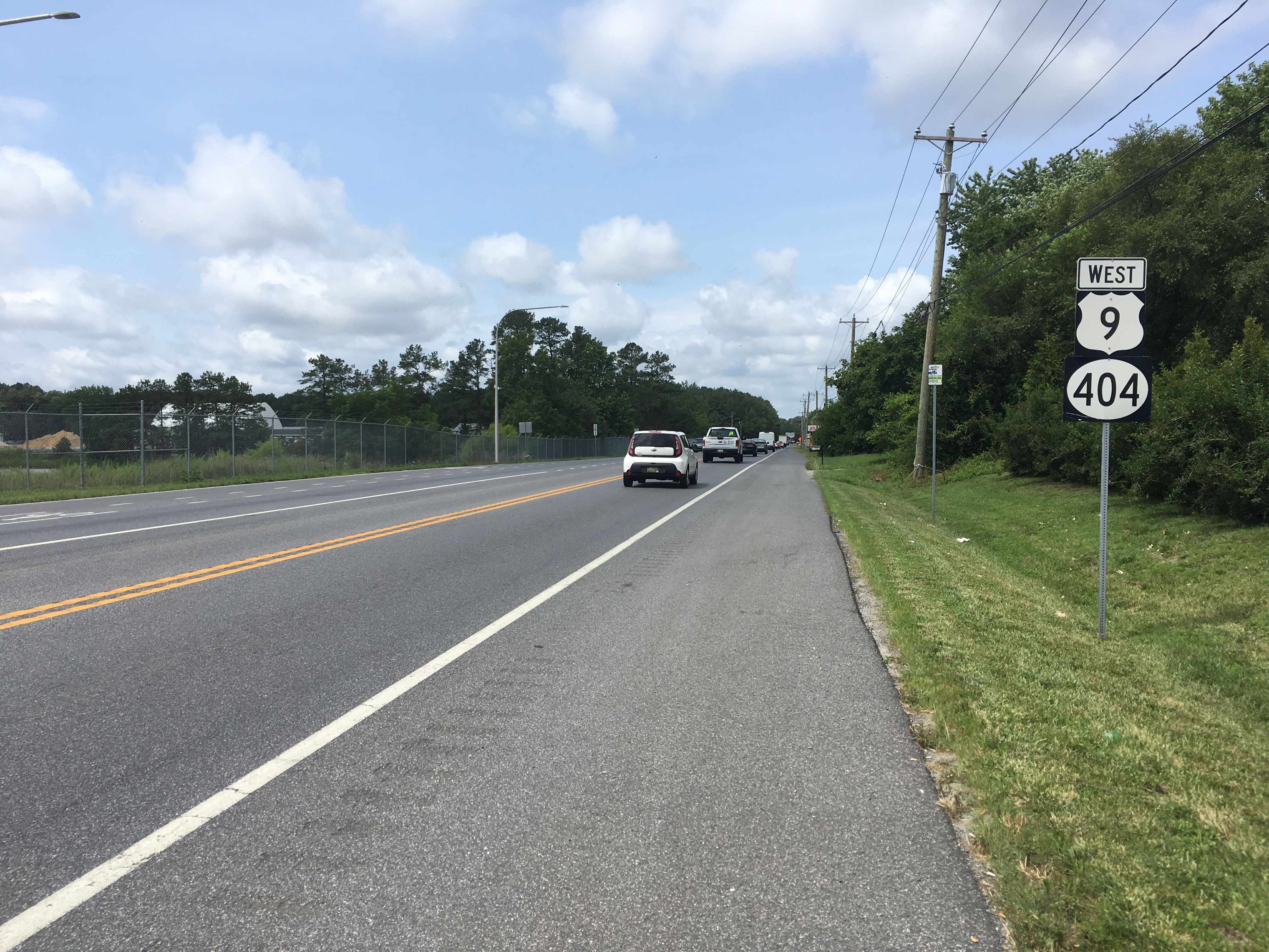 Westbound U.S. Route 9/Delaware Route 404 (Lewes Georgetown Highway) past the intersection with Delaware Route 30 (Gravel Hill Road) in Gravel Hill, Delaware